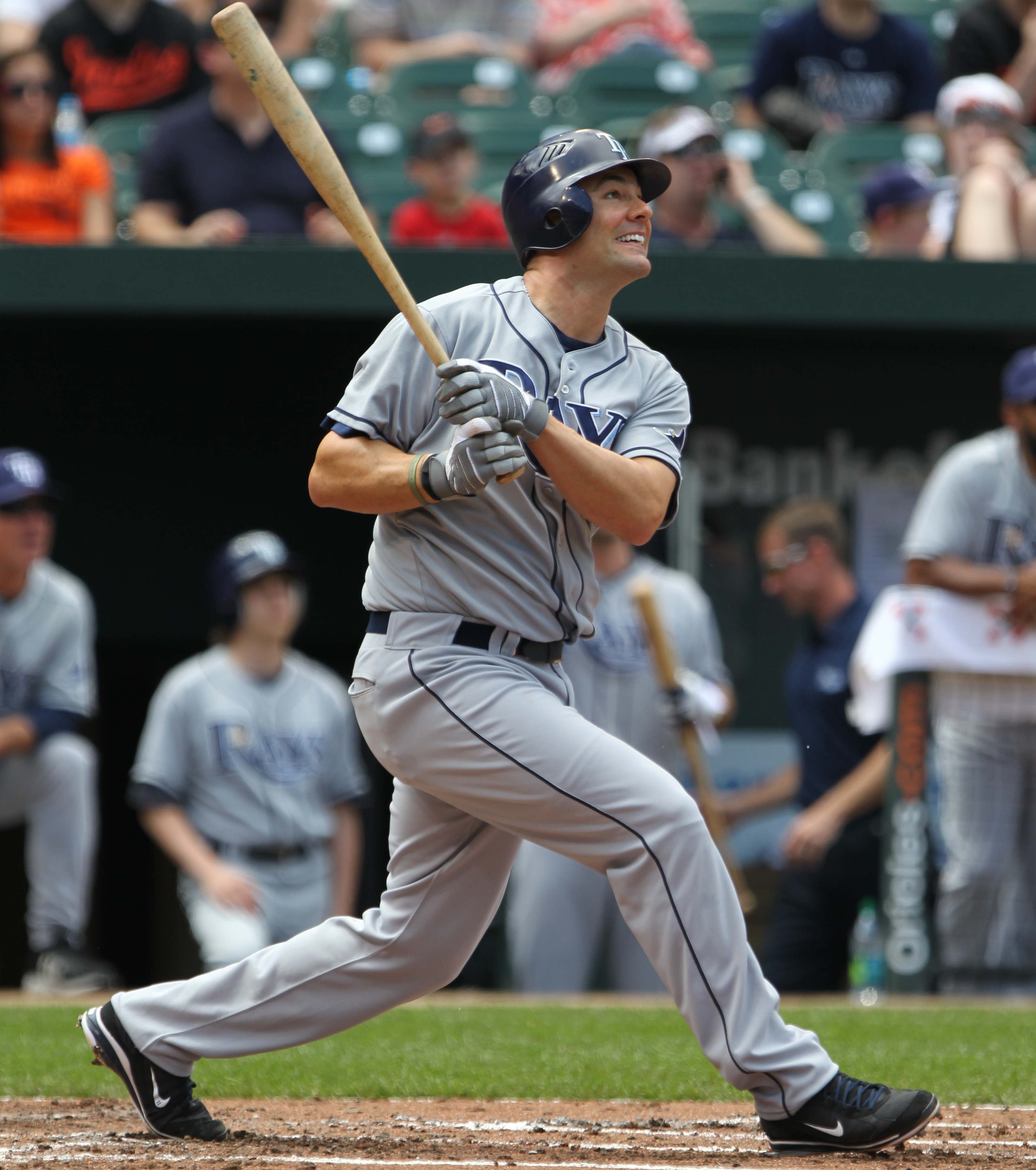 Casey Kotchman